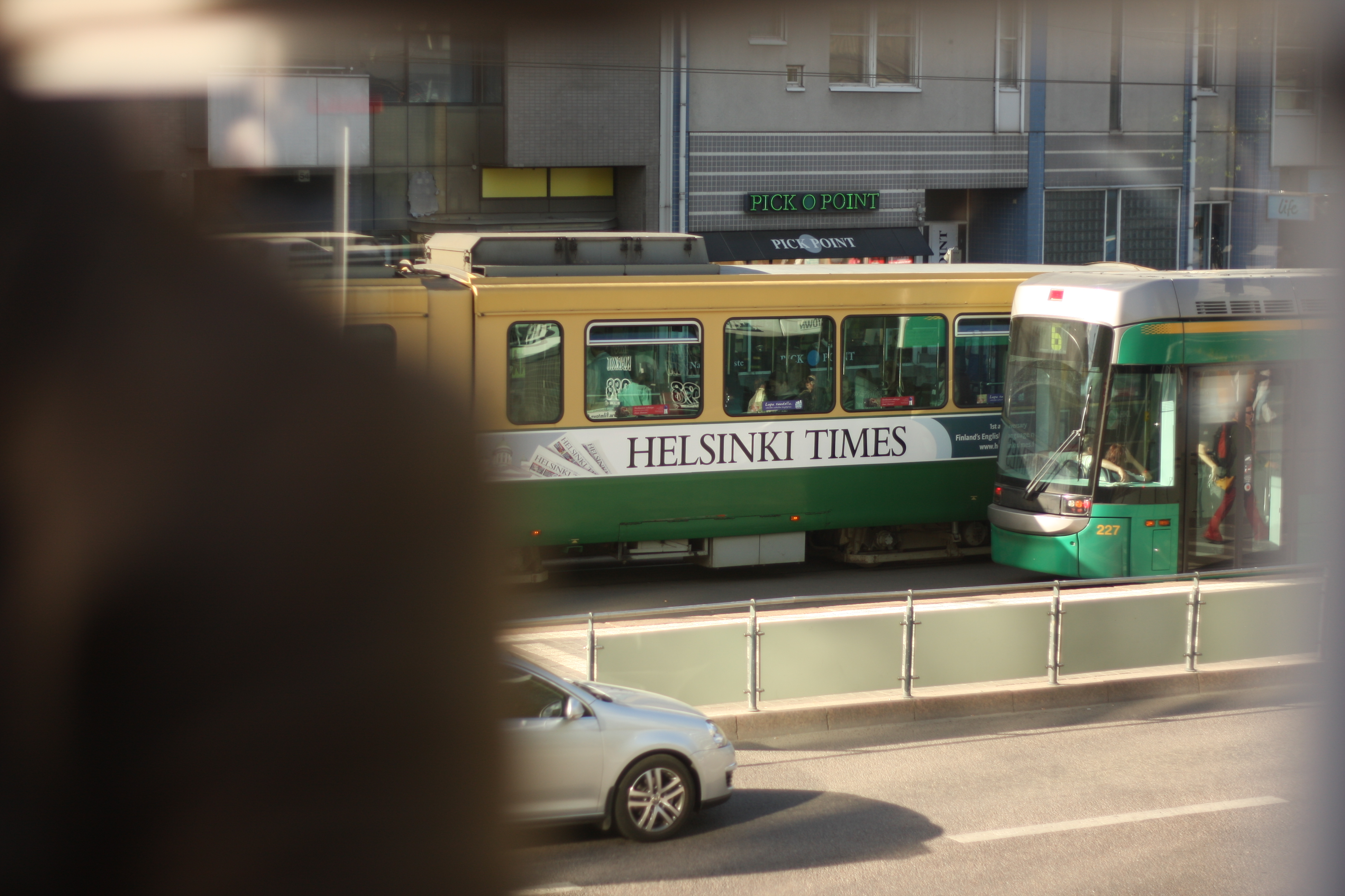 Helsinki Times one-year anniversary Advertisement in a Helsinki Tram